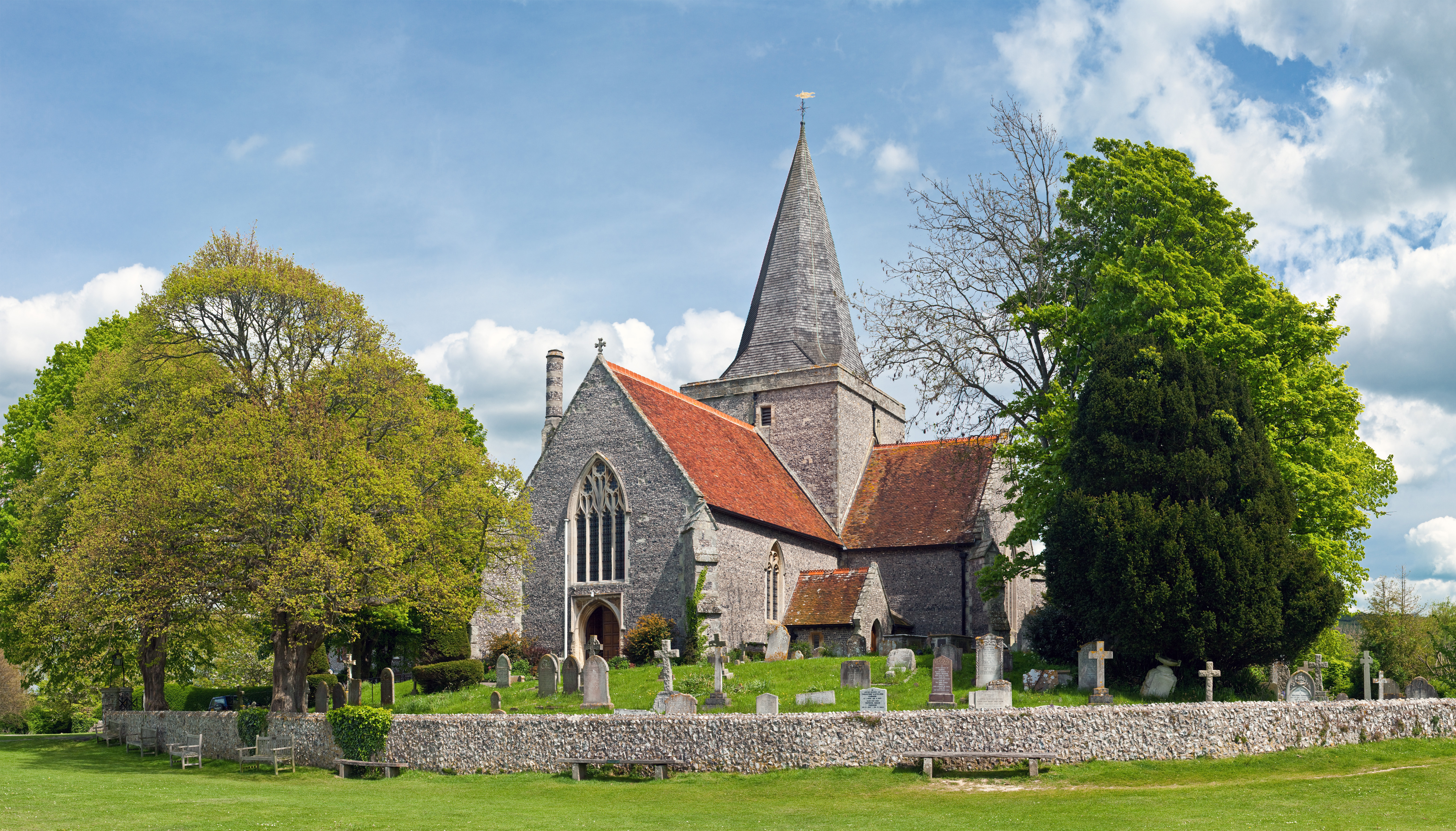 A 3 by 5 segment stitched panoramic image of the Church of St. Andrew in Alfriston, East Sussex, England. Taken by myself with a Canon 5D and 70-200mm f/2.8L lens at 70mm.